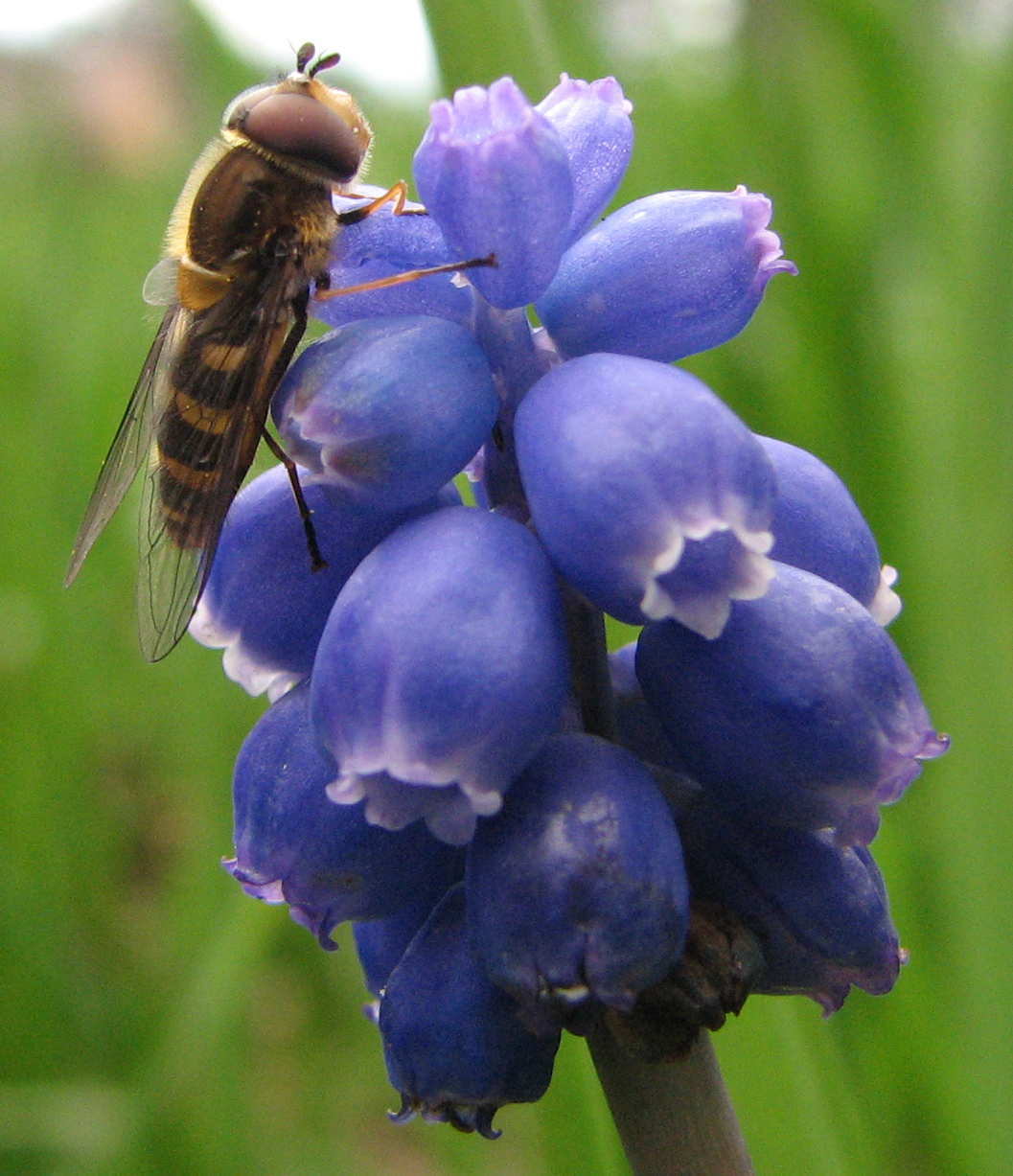 A Syrphid fly on a Grape hyacinths